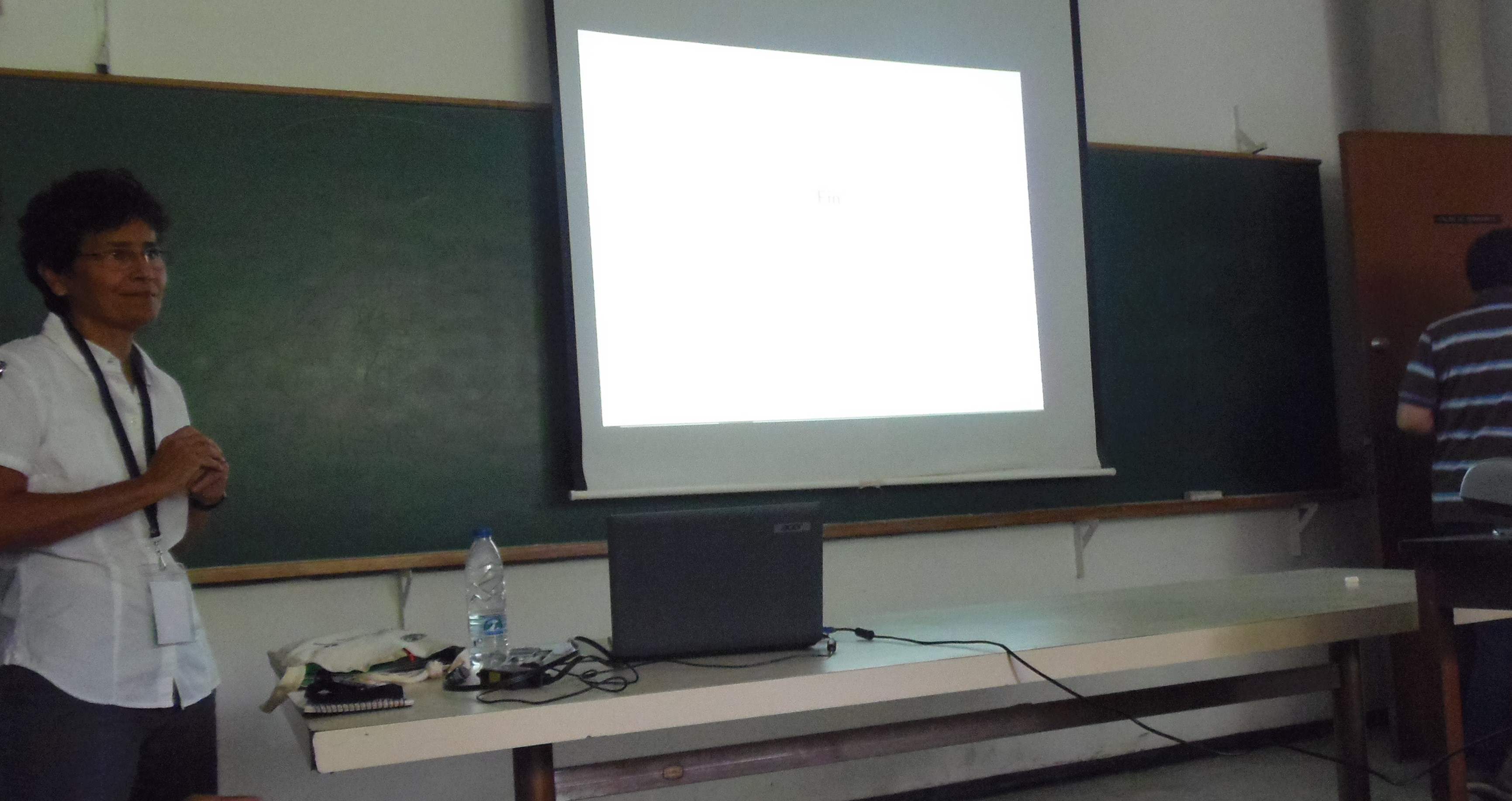 Picture taken during a lecture given in Guillermo Ruggeri Seminars Room at Escuela de Física Universidad Central de Venezuela